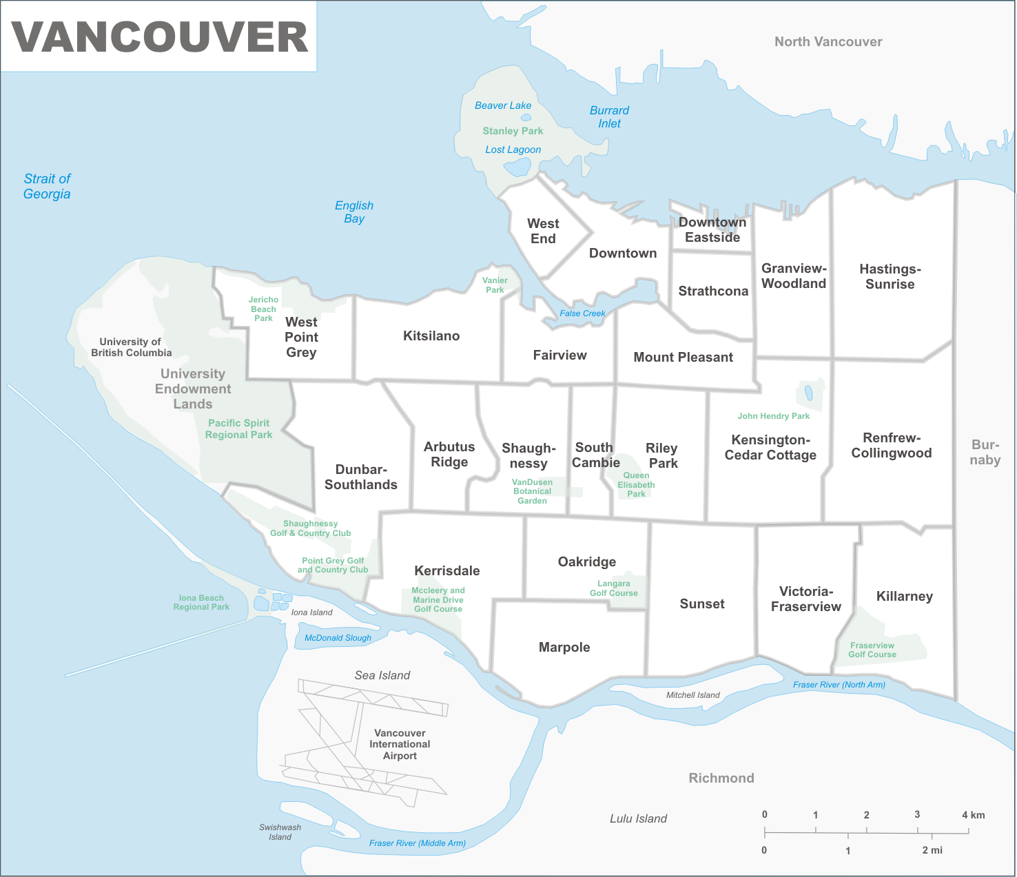 Map of Vancouver neighbourhoods Artist: Tschubby